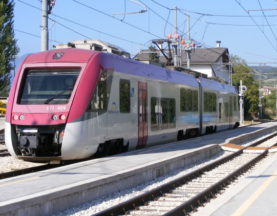 ETi tt